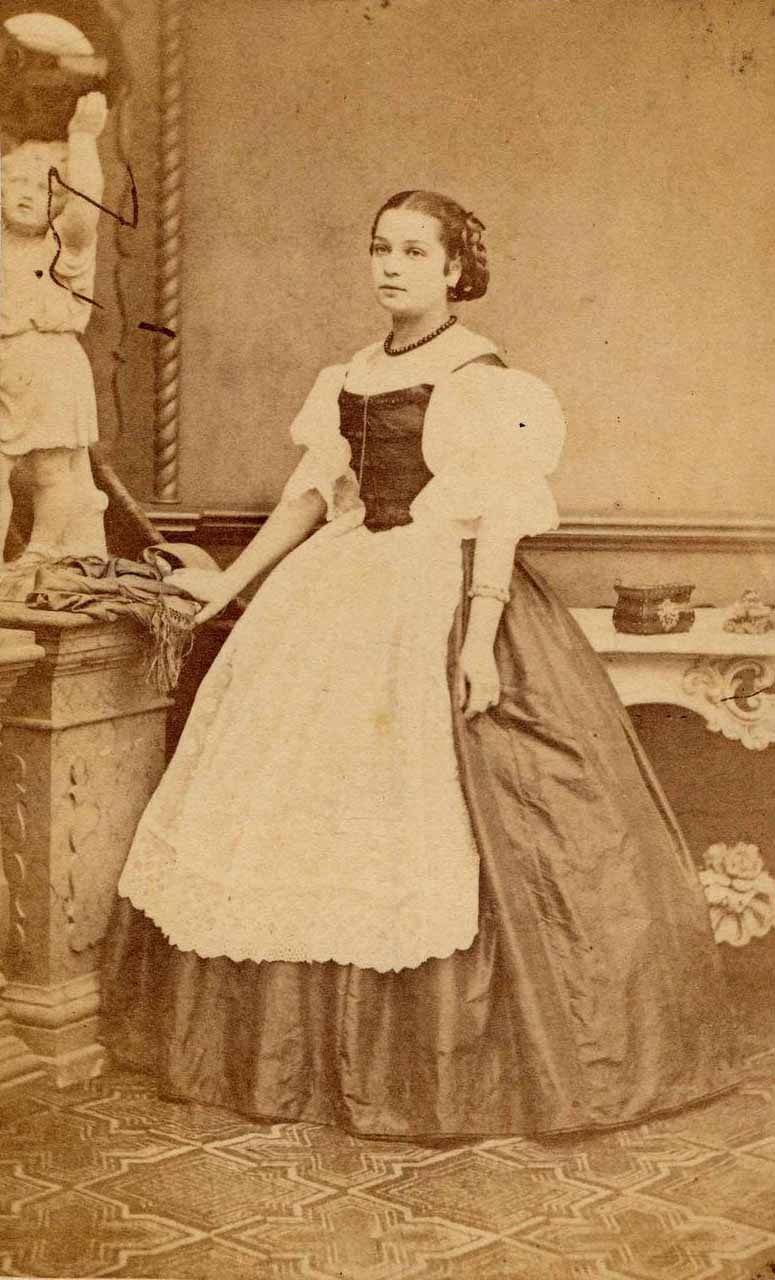 Portrait of Ilka Markovits Hungarian Theatre Museum and Institute LocationBudapestCoordinates47° 29′ 51.75″ N, 19° 01′ 47.32″ E Established1952Web pageszinhaziintezet.huAuthority control : Q1226166 VIAF: 152589477 ISNI: 0000 0001 0945 5202 BNF: 123022856 institution QS:P195,Q1226166